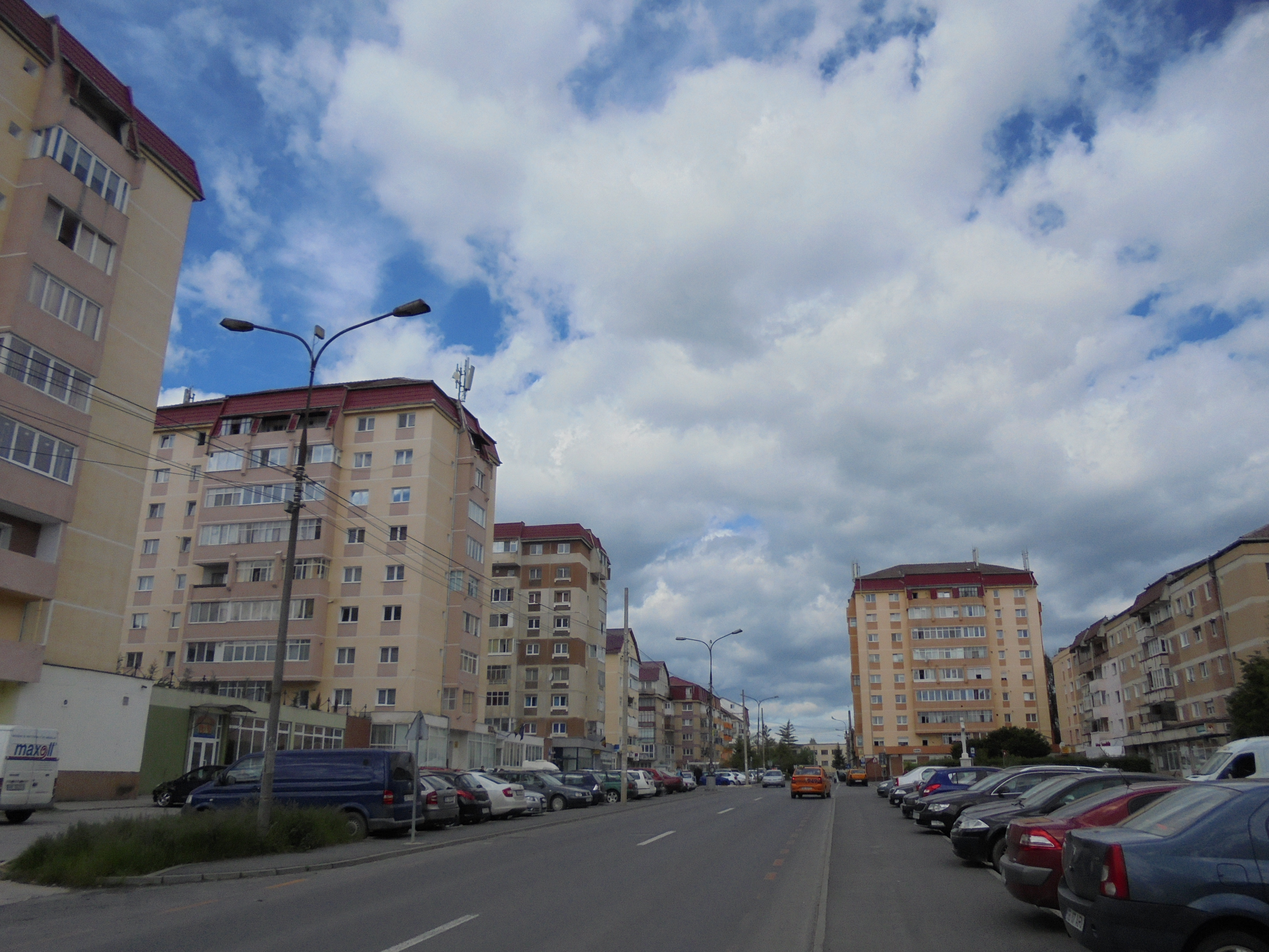 Ludos Street